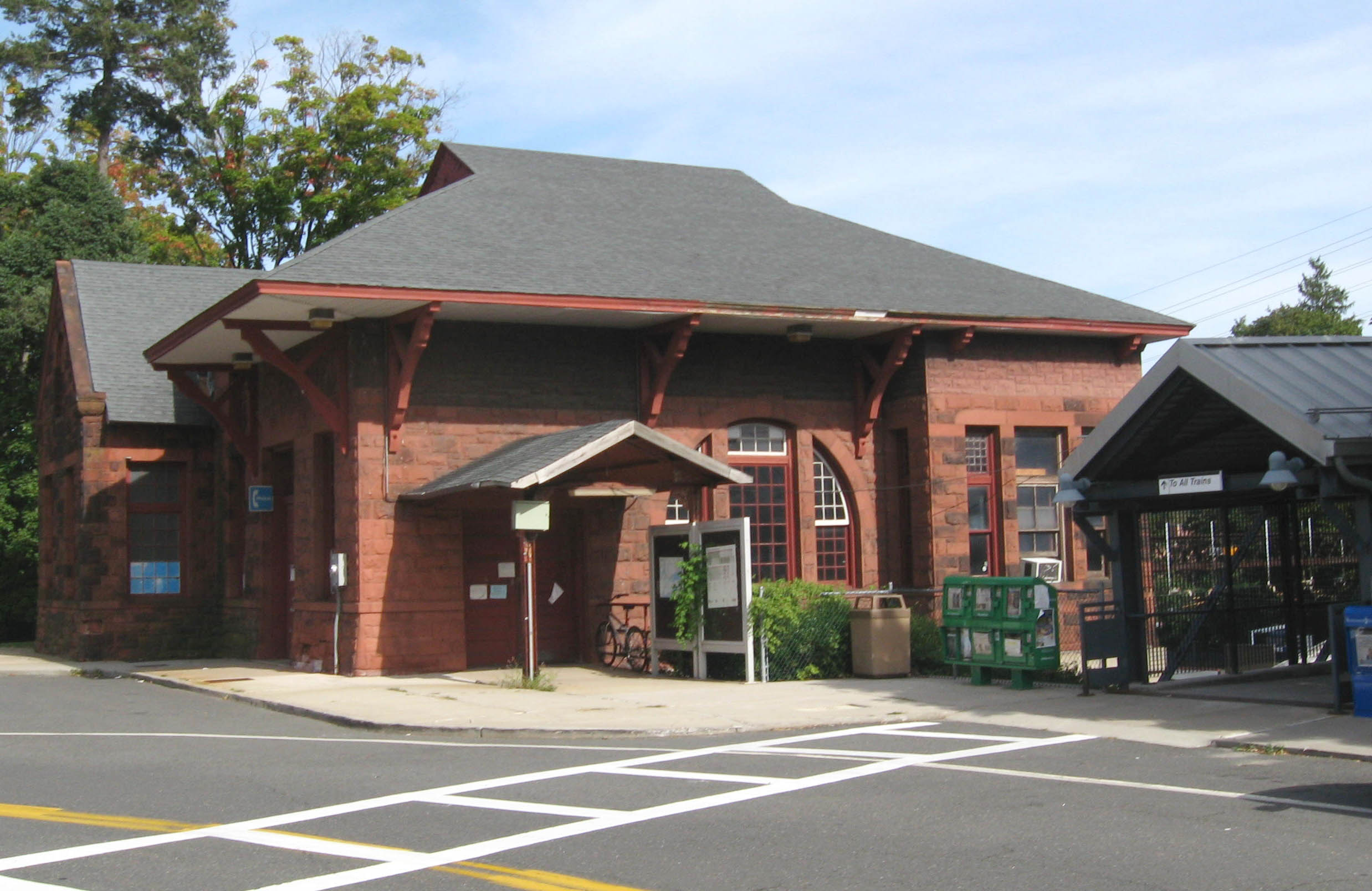 Looking east at the station house of Harrison (Metro-North station) on a sunny afternoon